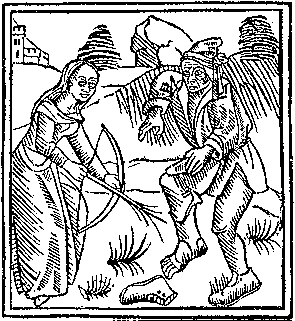 form Lamiis et pythonics mulieribus by Ulrich Molitor, after 1487